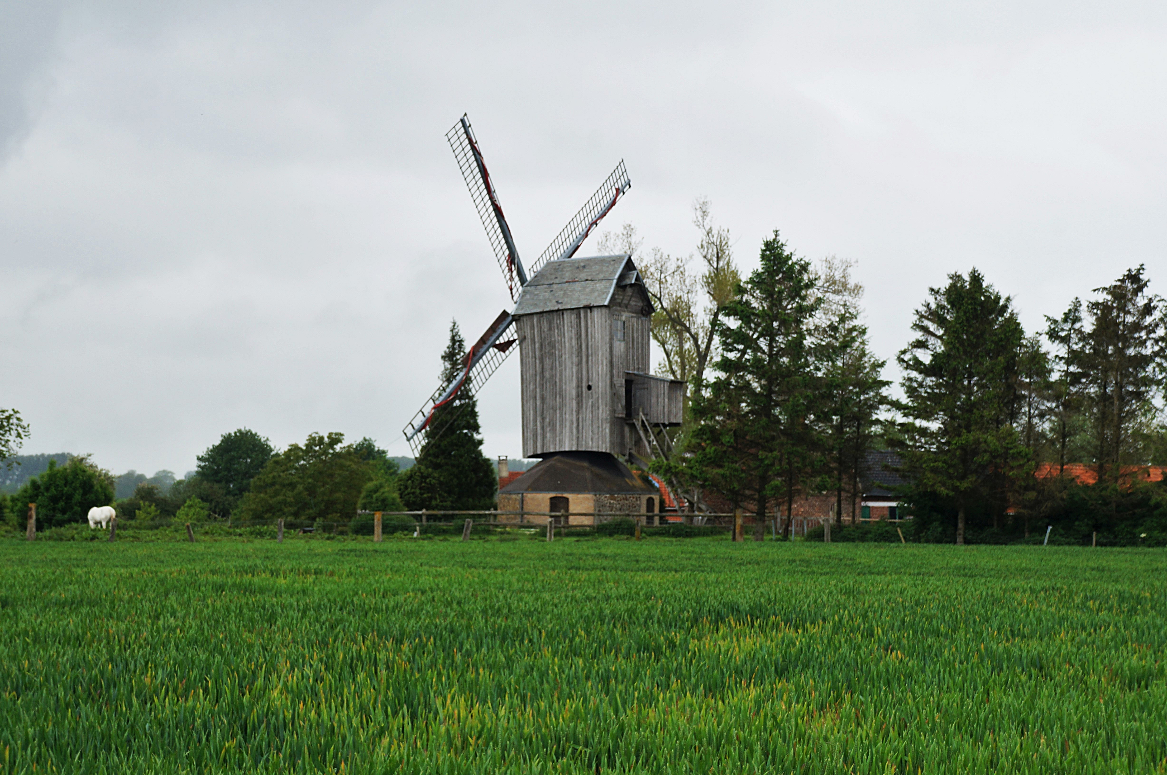 Houtkerque, Nord, France Mill of Hofland also called mill Accou (2016). .